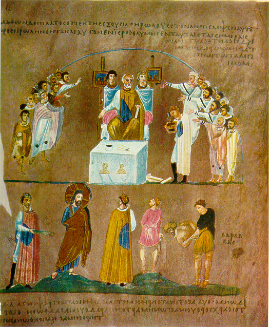 Illumination of Christ before Pilate